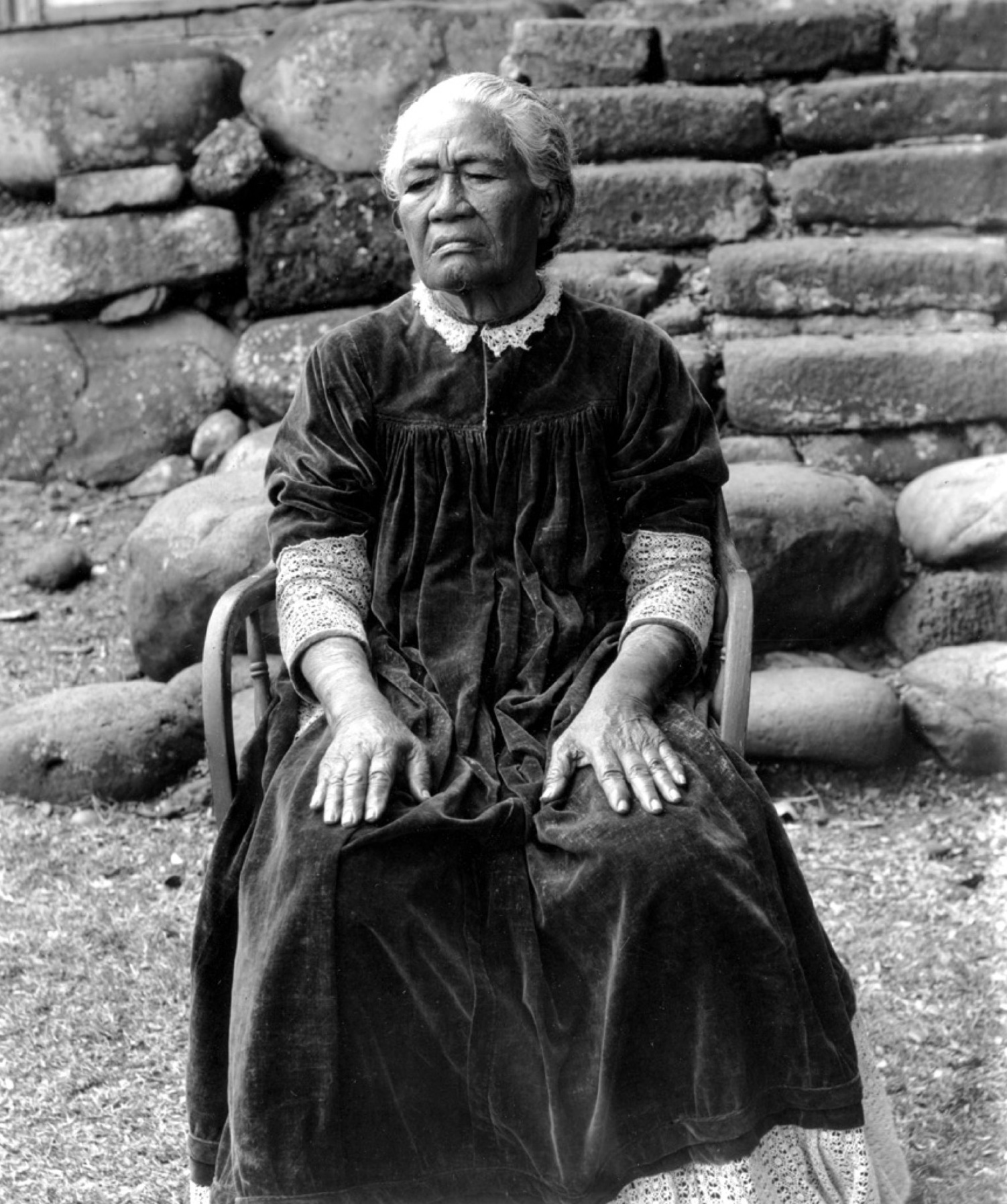 Vaekehu, Queen of the Marquesas. Neg. no. 121424. Photographer, Alfred G. Mayer, 1899. Courtesy Department Library Services, American Museum of Natural History.